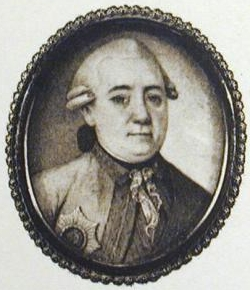 Ivan Nesvitzky